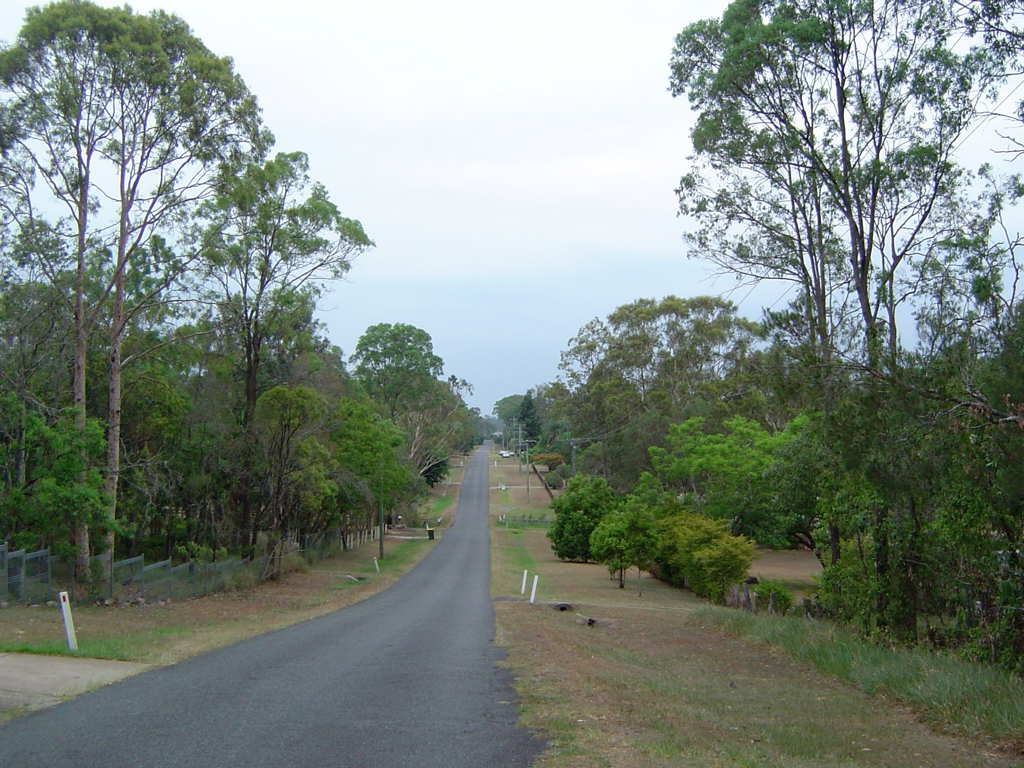 Photo of Lovat Street, Ellen Grove, Brisbane, Queensland, Australia looking southwards.